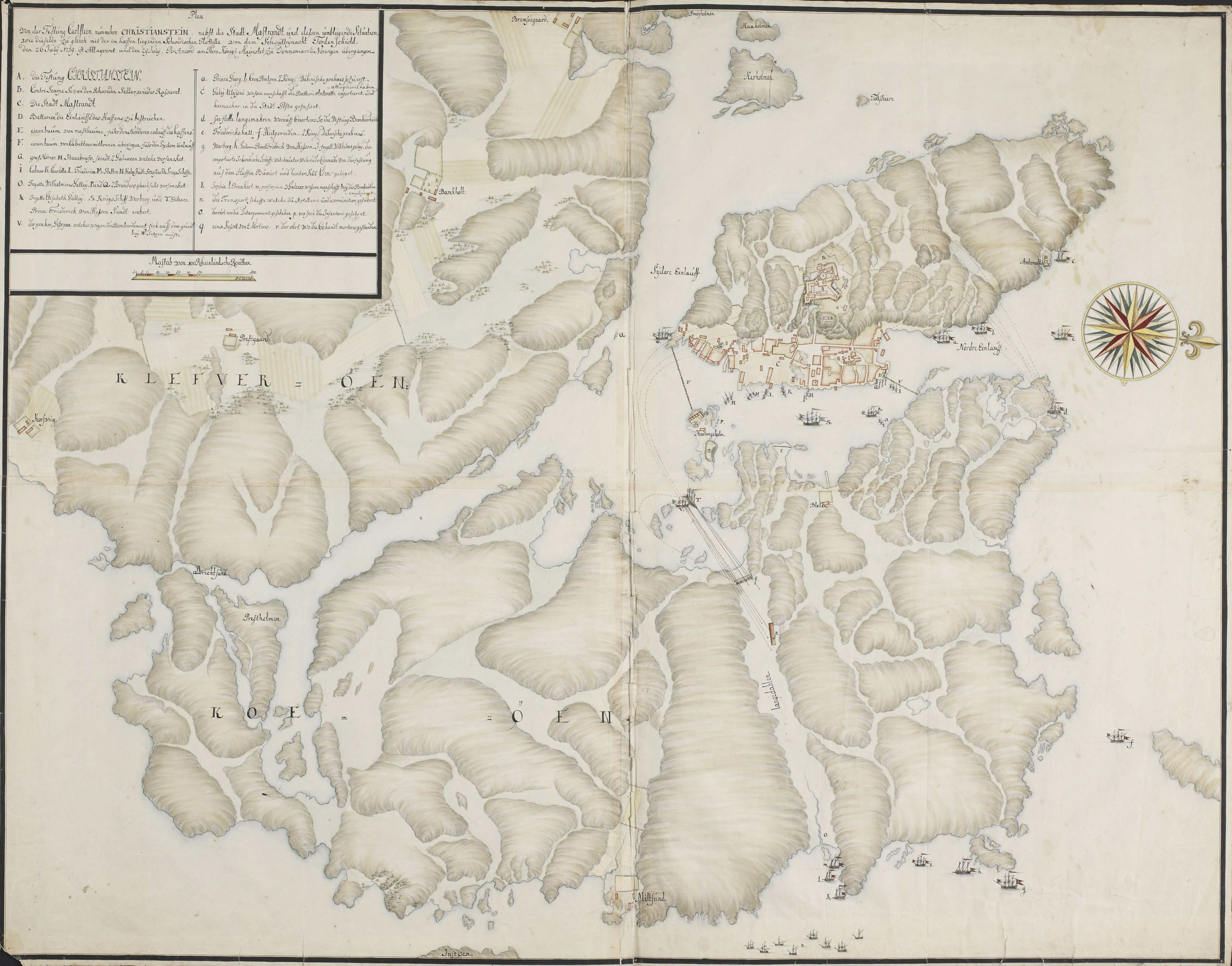 Danish map over the Swedish city Marstrand, fortress Carlsten and surrounding islands, during the danish naval attack 1719. Location of vessels and fortifications i detail.